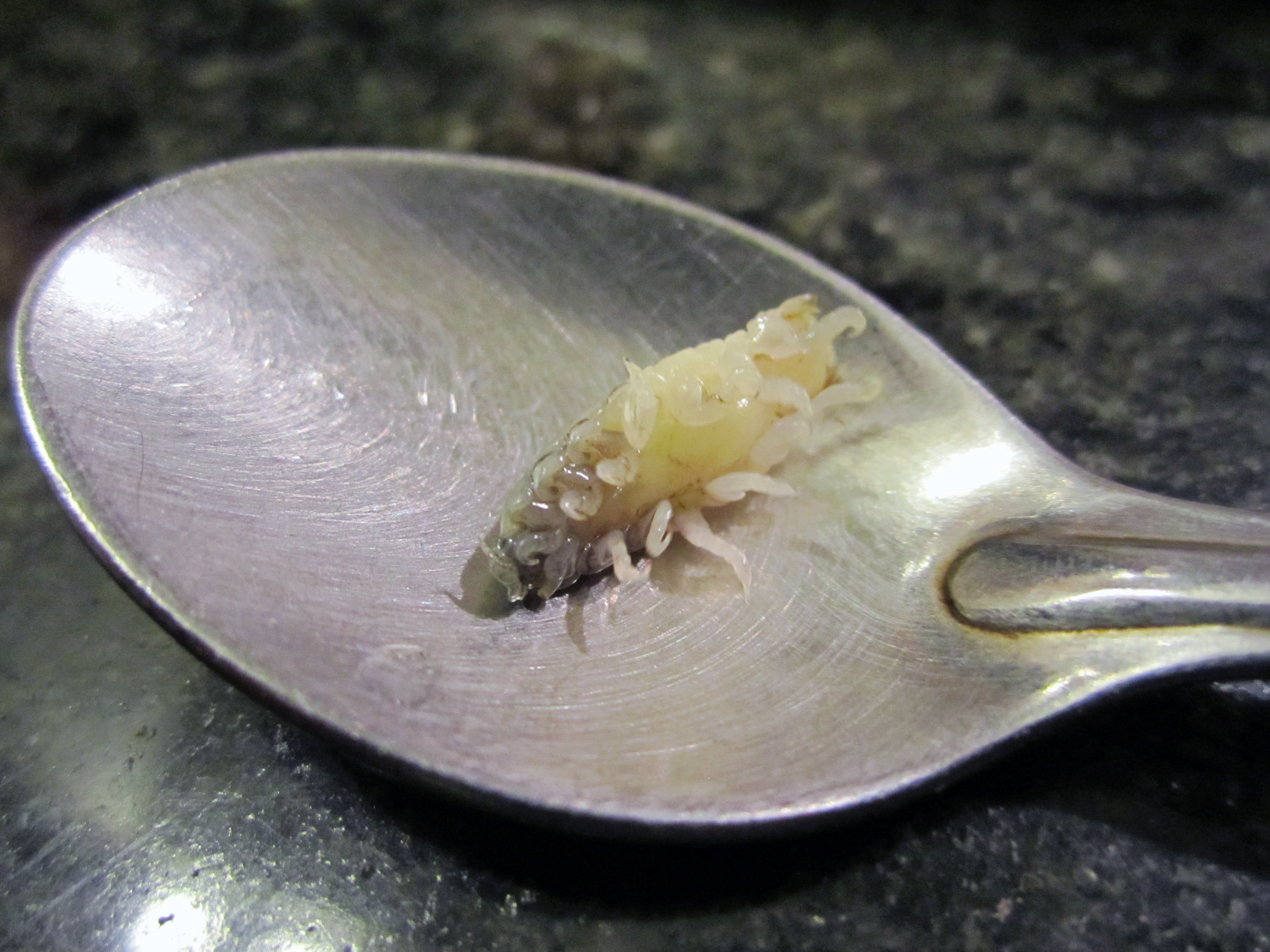 Cymothoa exigua, or the tongue-eating louse, is a parasitic crustacean of the family Cymothoidae. This parasite enters fish through the gills, and then attaches itself to the fish's tongue.